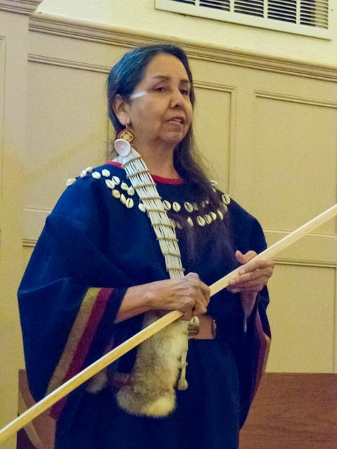 Charmaine White Face teacher, activist, and elder of the Oglala Sioux Nation does her presentation, "America's Chernobyl" - the facts about the 3,272 abandoned open pit uranium mines in the Great Sioux Territory - on a 10 day tour on the East Coast. 2013